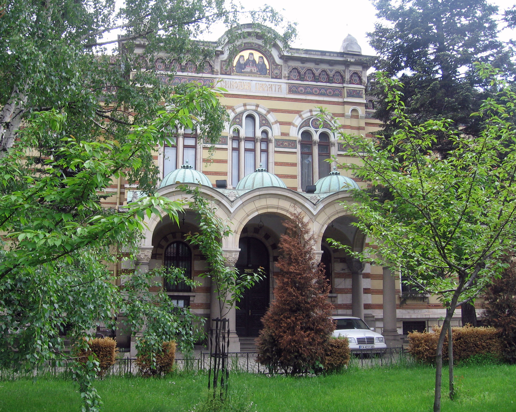 Building of the Holy Synod of the Bulgarian Orthodox Church